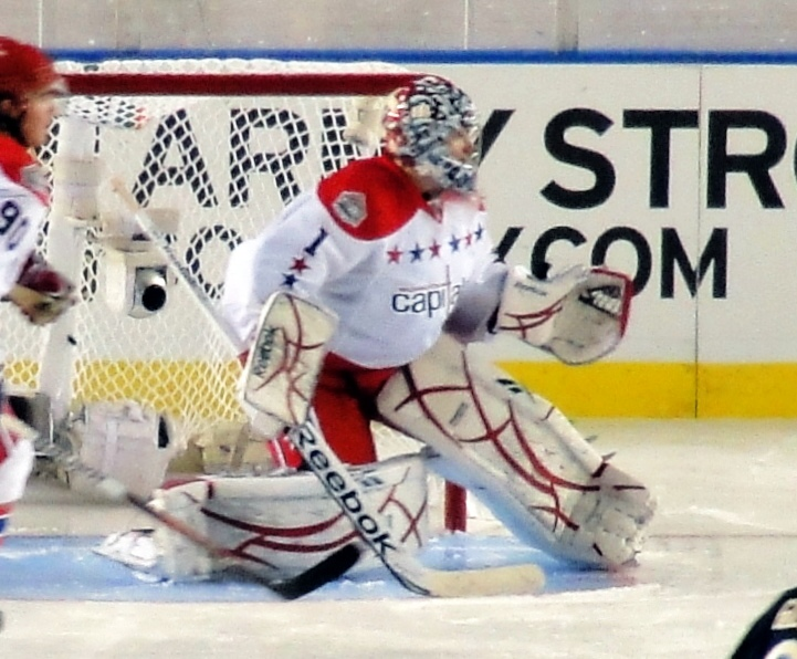 Washington Capitals goaltender Semyon Varlamov faces the Pittsburgh Penguins during the 2011 NHL Winter Classic at Heinz Field in Pittsburgh, PA.